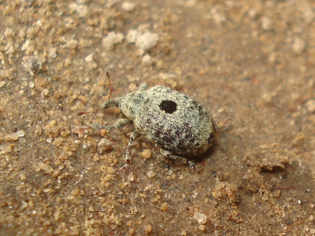 Cionus olivieri